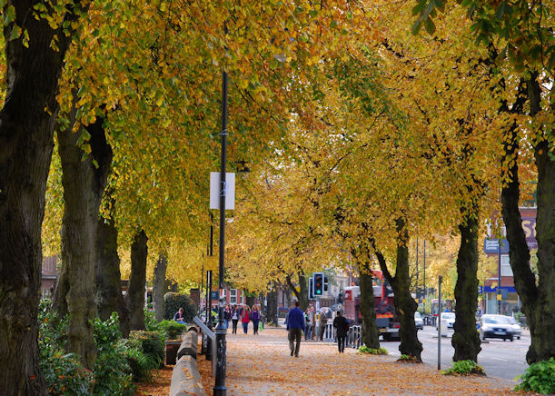 Autumn trees, Belfast In front of Queen’s University on the University Road.